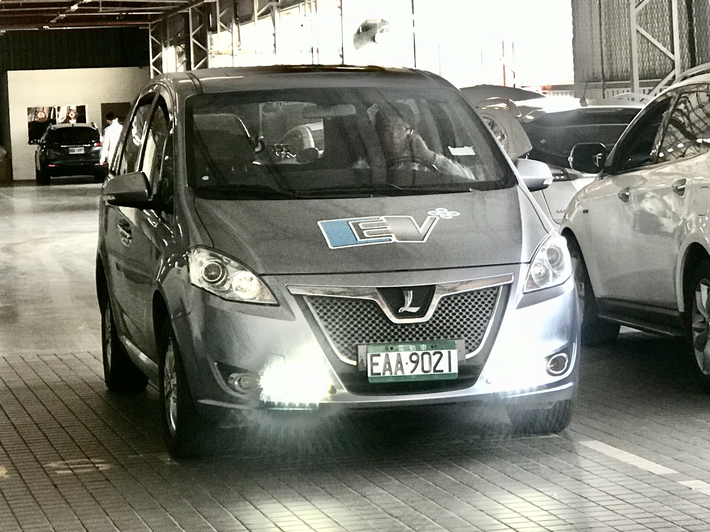 Luxgen7 MPV EV+